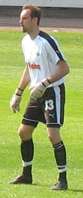 Tom Starke, goal keeper of SC Paderborn 07